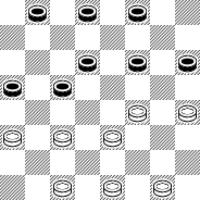 Symmetric position in russian checkers, after openings "Otkazannaya gorodskaya partiya" (Отказанная городская партия), Otkazannaya igra Kaulena, Otkazannaya obratnaya gorodskaya partiya etc.